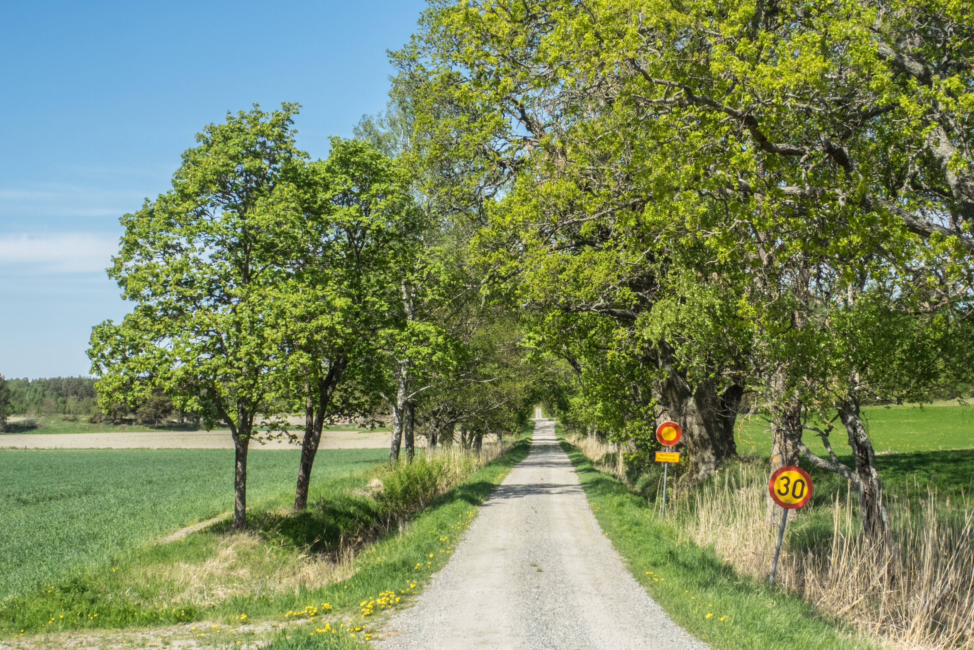 Road to Attu Manor on the island Attu in Parainen, Finland.